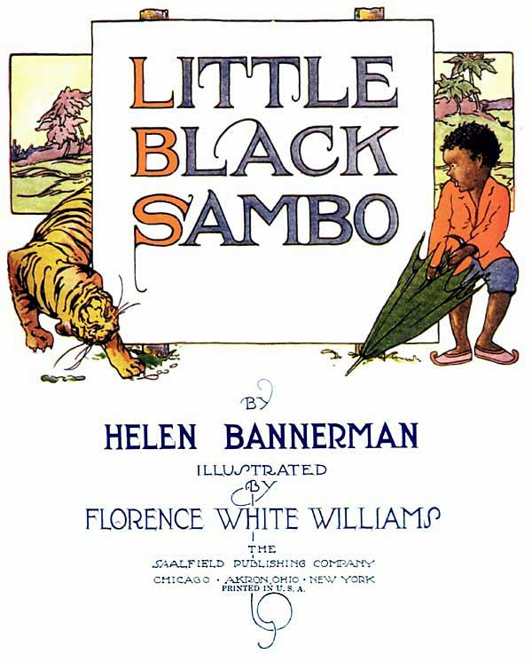 Frontispiece of the book The Story of Little Black Sambo; the American version illustrated by Florence White Williams